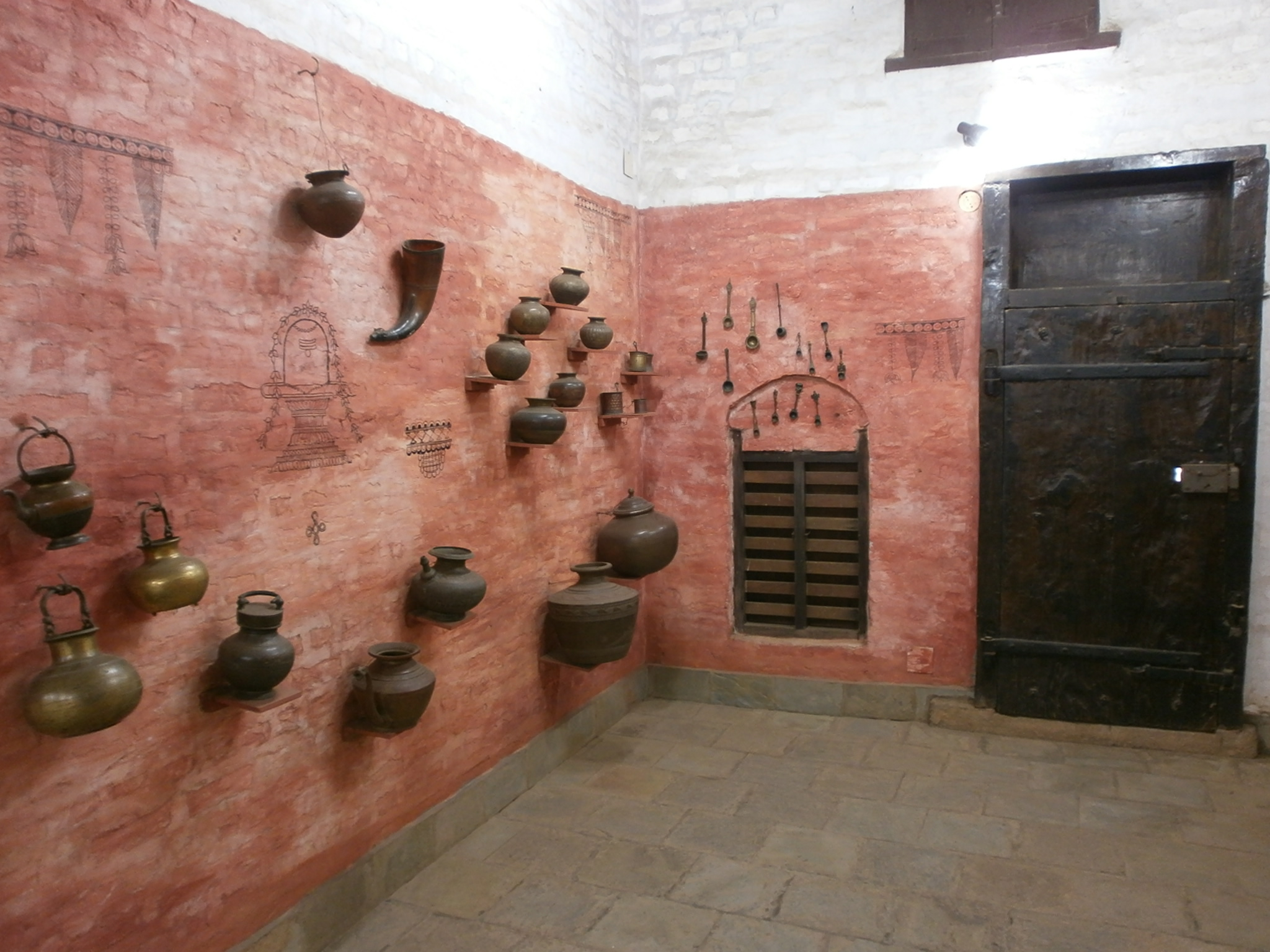 Dakshina-Chitra-Inside-house-1